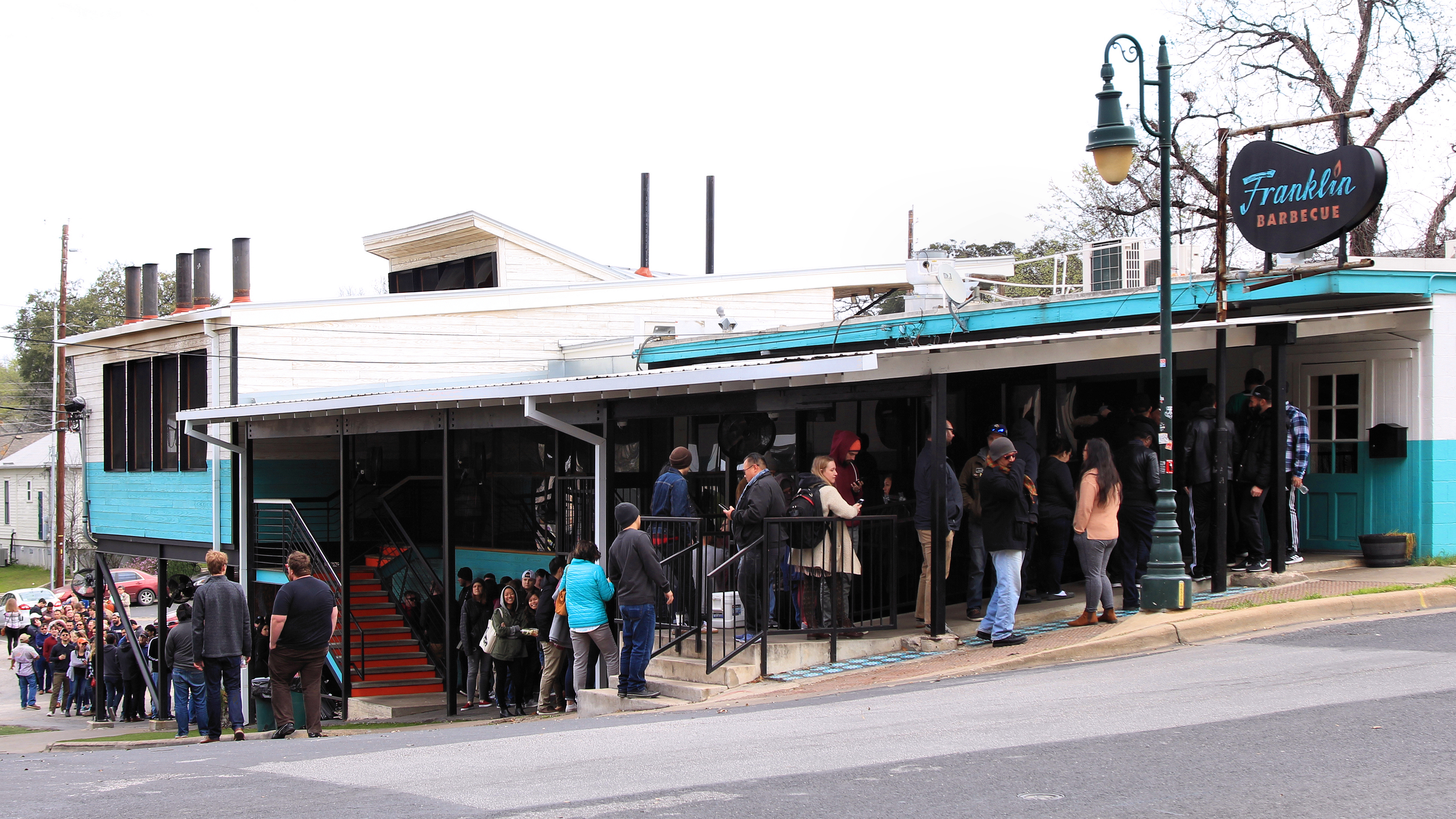 Franklin Barbecue on 11th Street in Austin, Texas, United States about to open for lunch. The line is always like this.